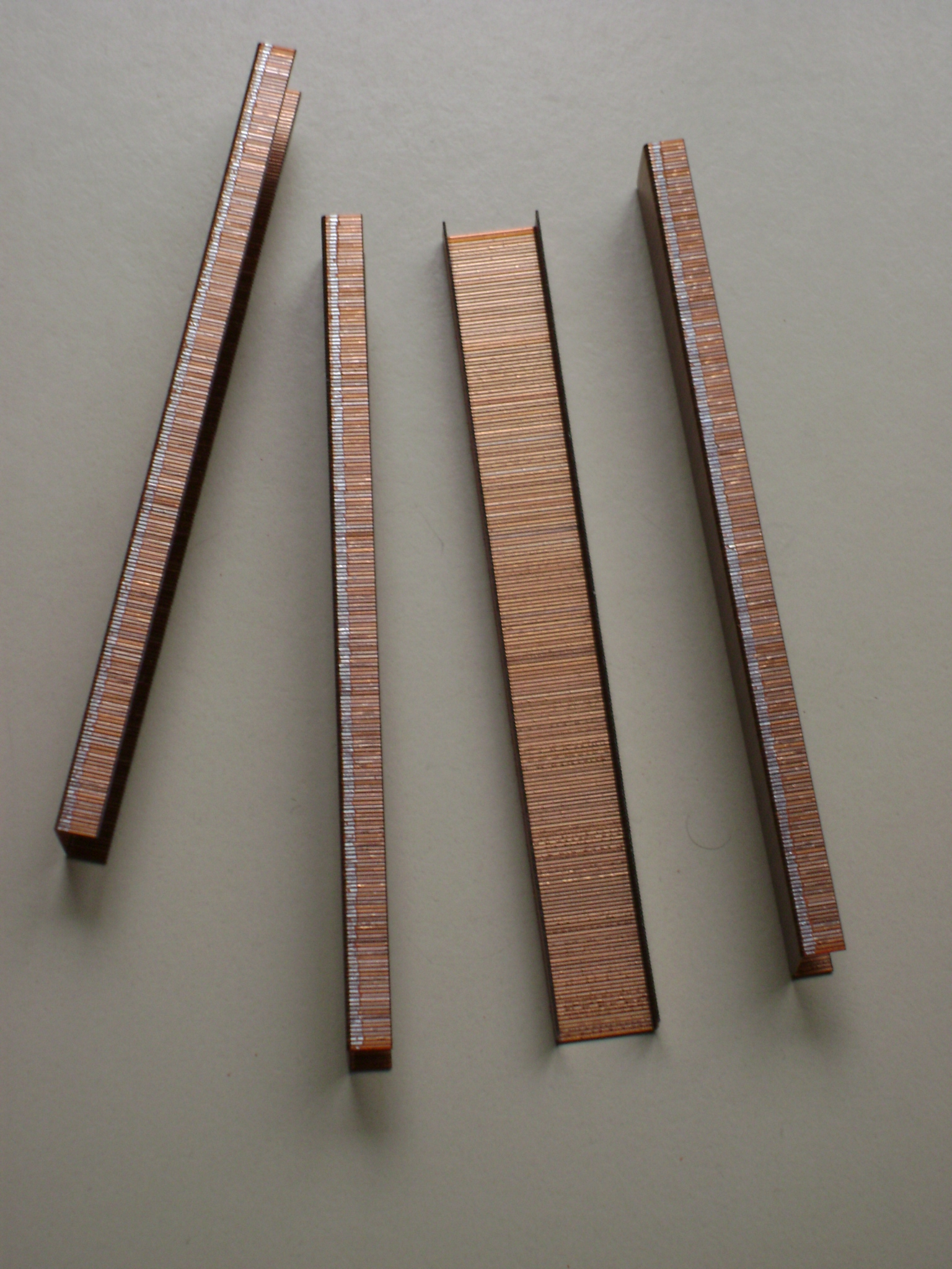 Staples.